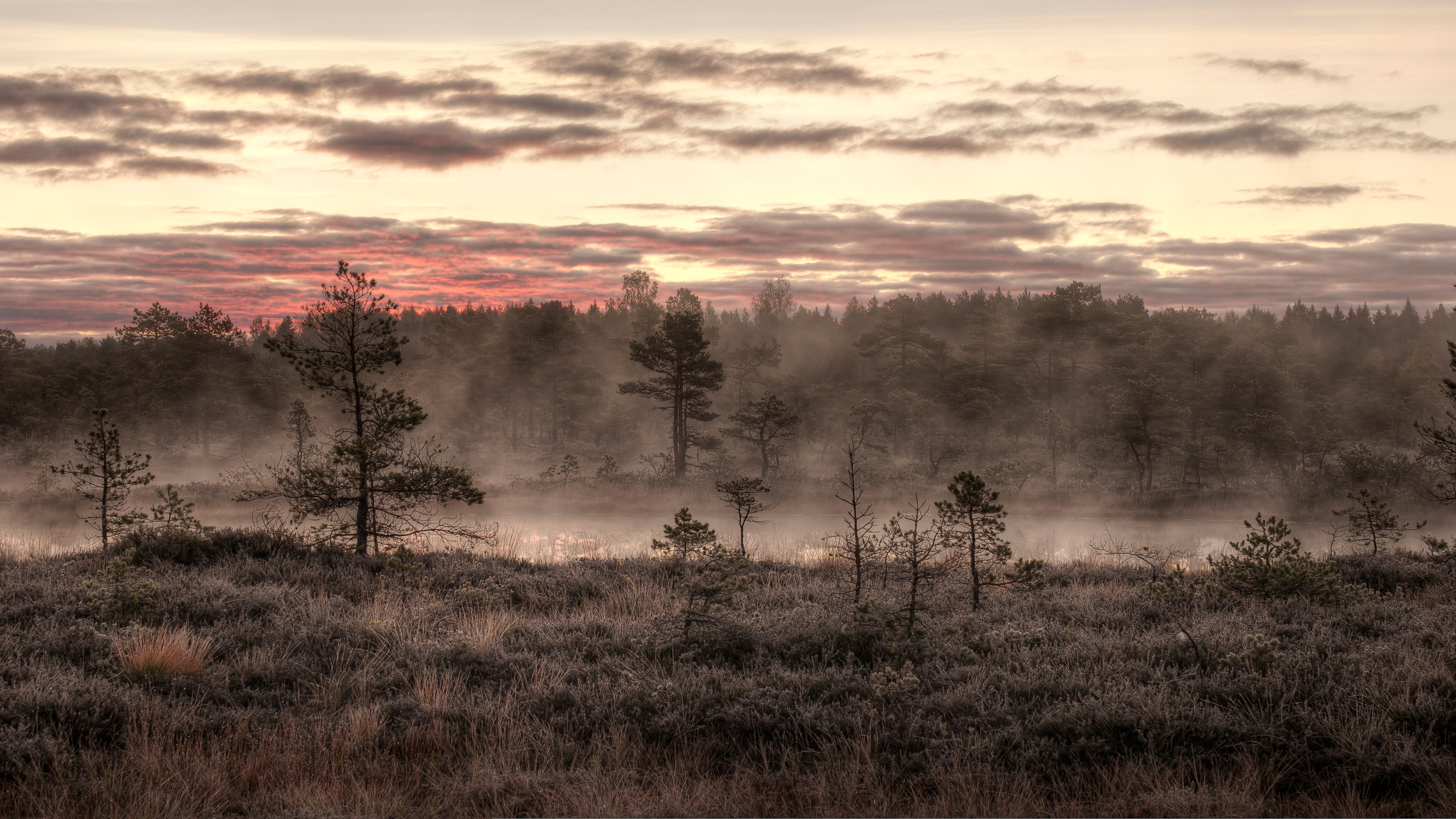 Mukri bog in the october morning mist